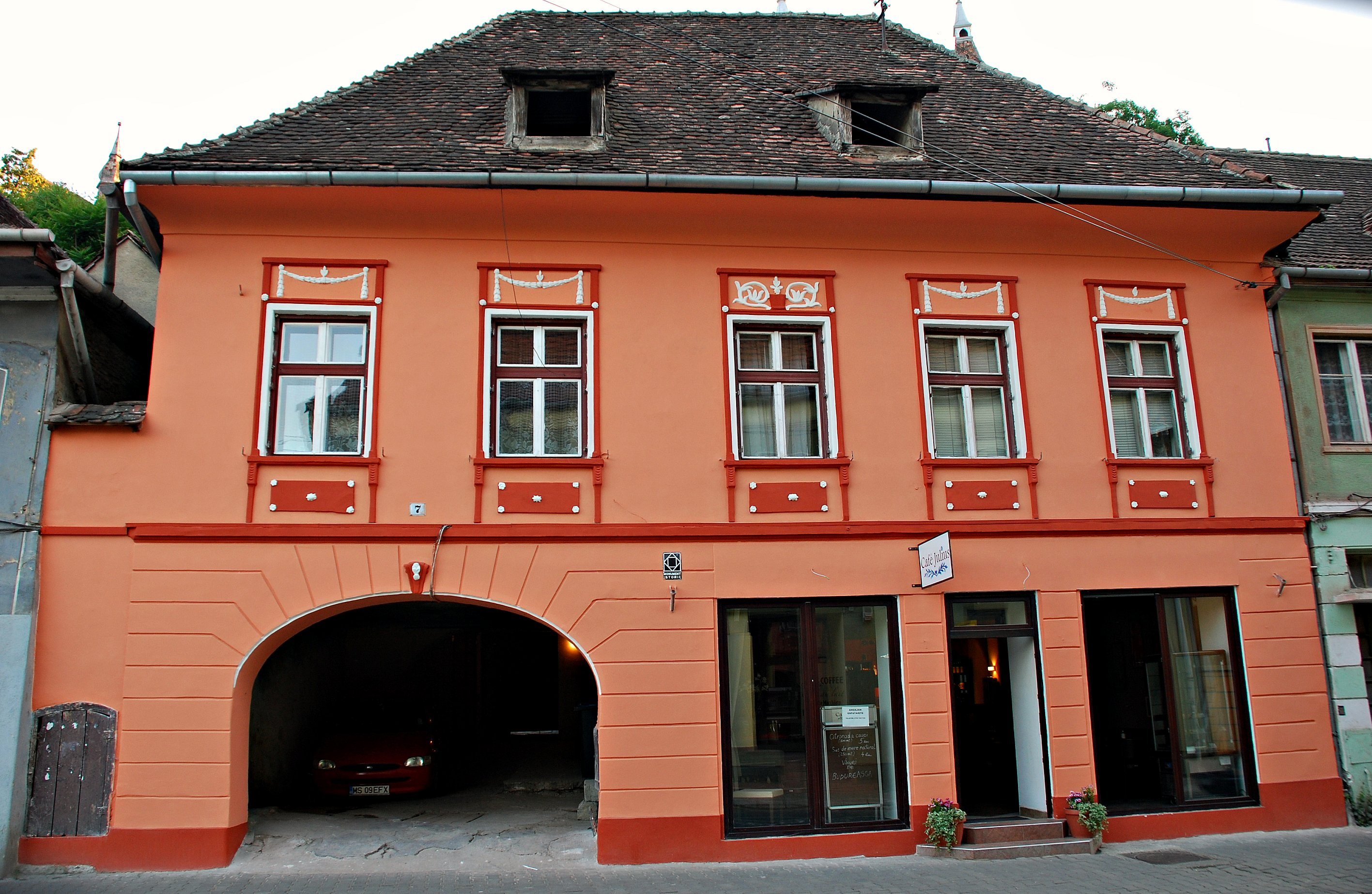 More info: My photostream